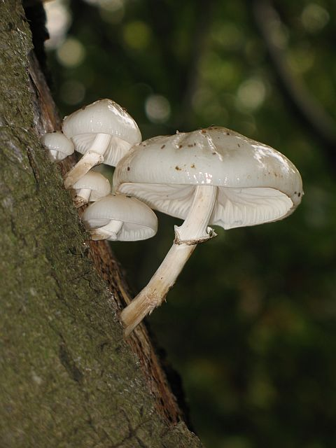 Decaying beech Fruiting bodies of the porcelain fungus, Oudemansiella mucida on a beech with damaged bark.